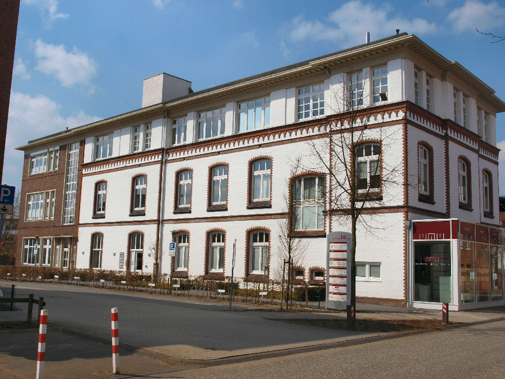 Nordhorn, ehemaliges Kontor Kokenmühlenstraße 16